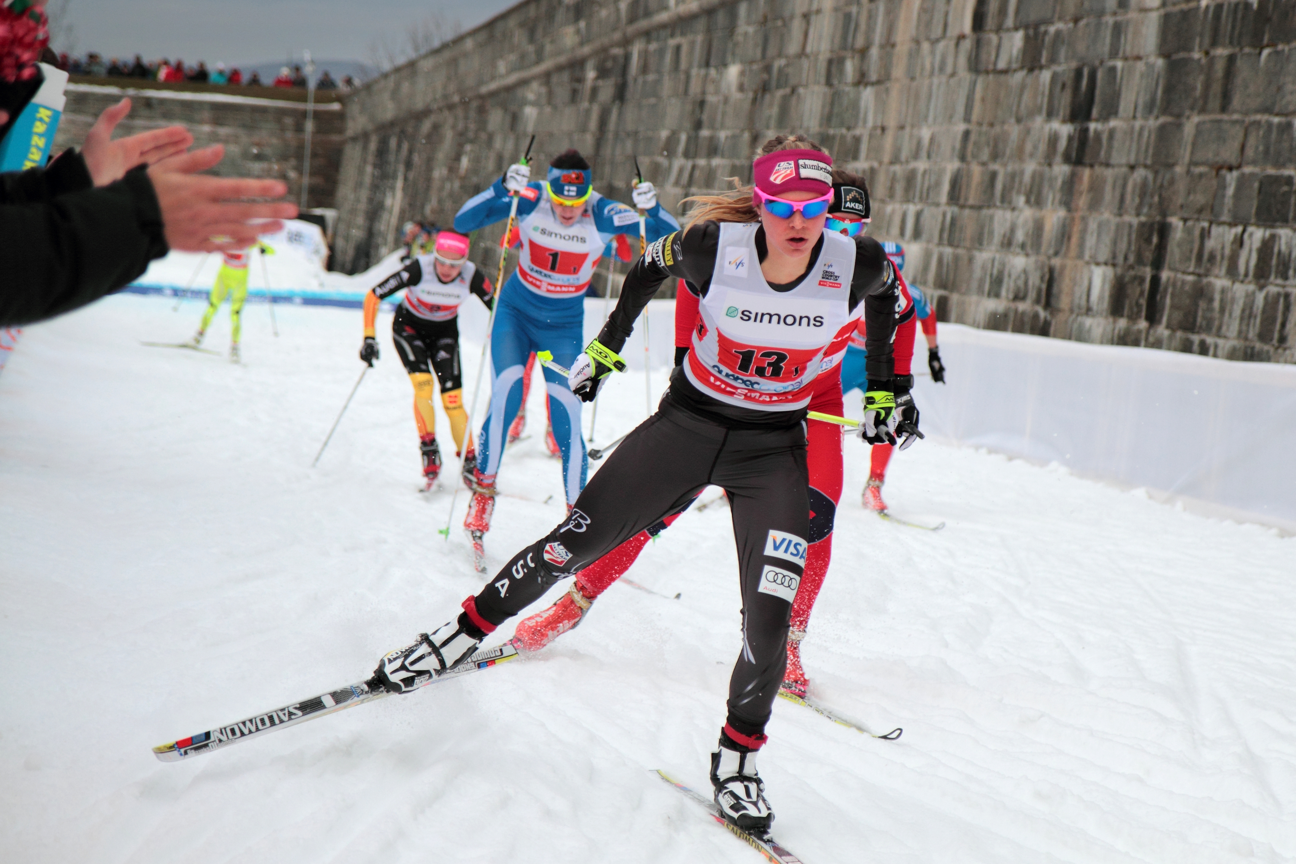 Jessica Diggins, FIS Cross-Country World Cup 2012, Quebec, Canada.